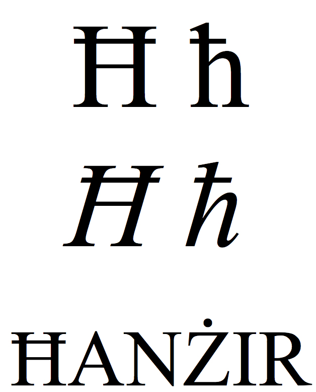 latin small and capital letter h with stroke, and small capitals ‘ħanżir’